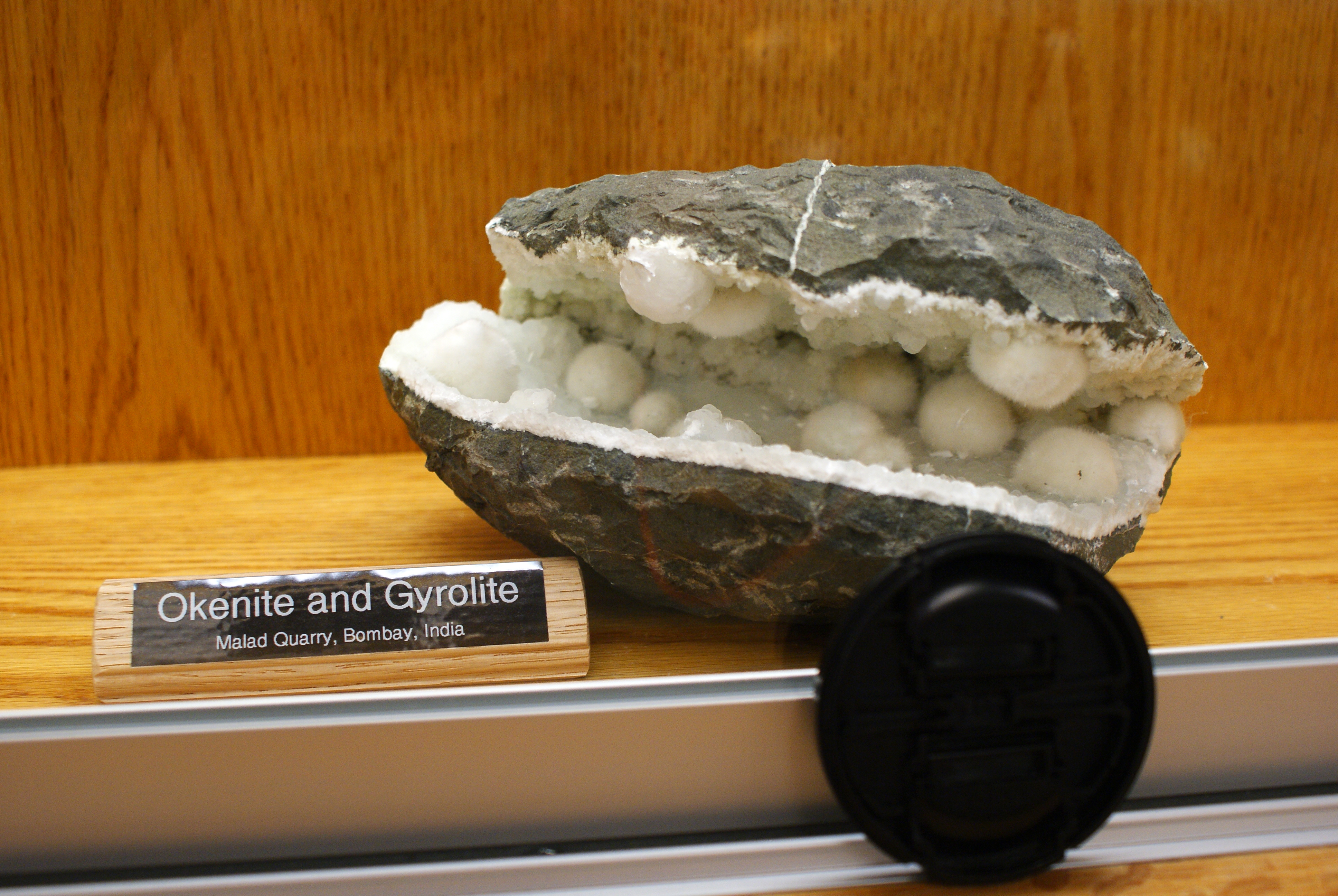 Taken from a collection at Brandon University. 55mm lens cap for scale. For reference the larger white mineral spheroids are Okenite. Sample from Malad Quarry, Bombay, India.